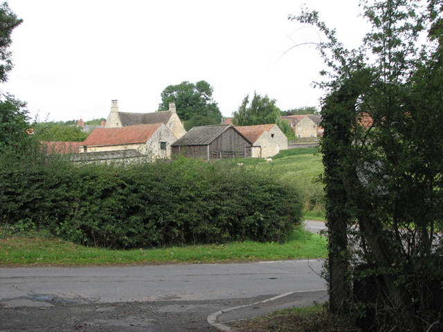 Woolsthorpe: site of quarry railway level crossing The Colsterworth Quarries railway crossed Old Post Lane here until quarrying ceased in 1973. The crossing gates were apparently of mainline standard; the hedge marks their position. Newton's birthplace, Woolsthorpe Manor, is in the background. See other photos nearby for more on the quarries and railways in the area.